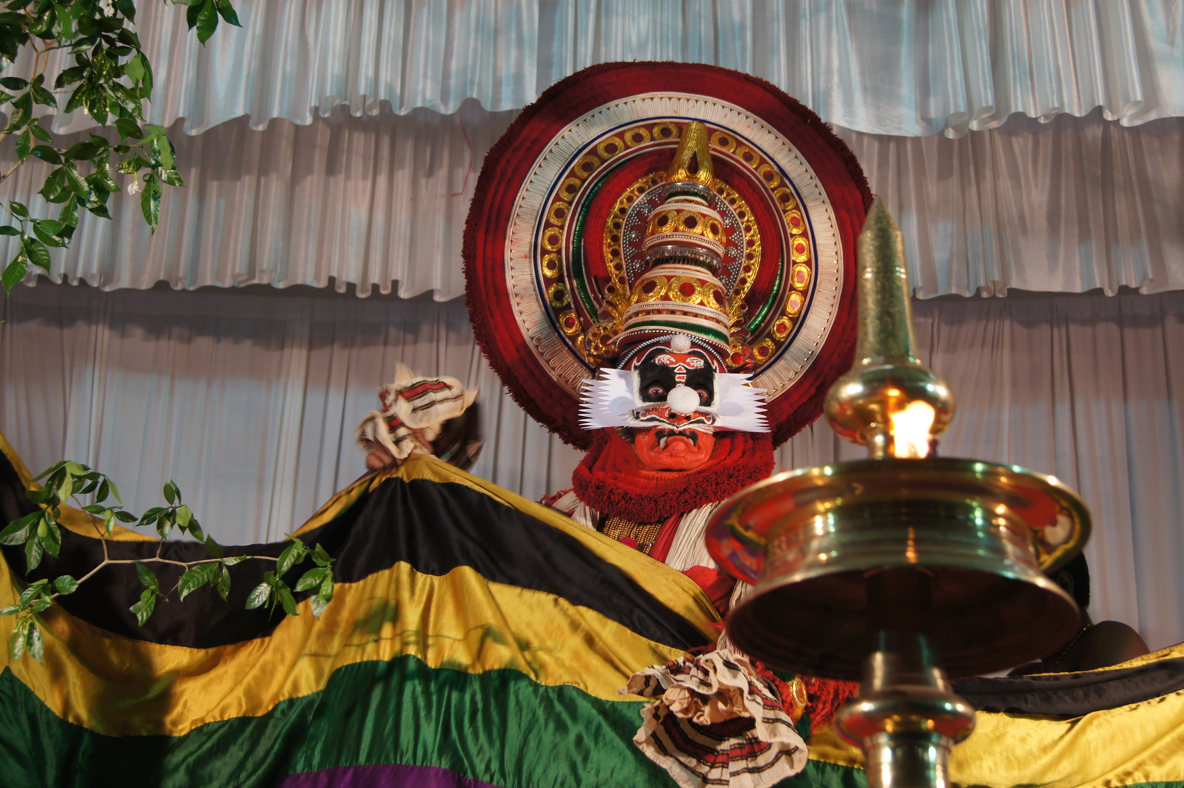 Sri Nelliyodu as Kamhasura in Sri Mookambika Mahathmyam Kathakali